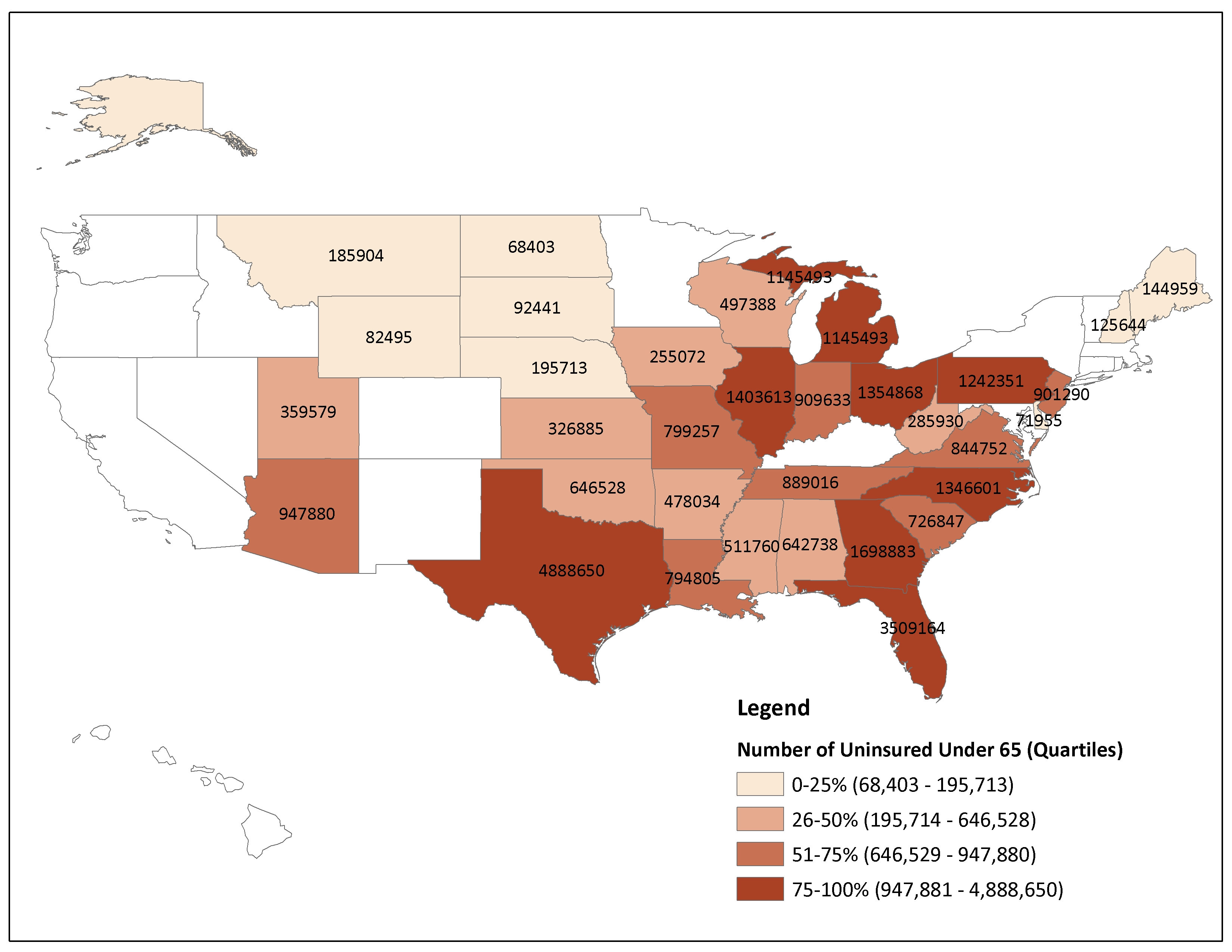 Number of uninsured residents under the age of 65 in states with federally-facilitated exchanges (FFE) or state partnership exchanges